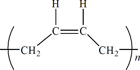 1,4-Polybutadiene